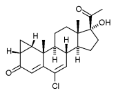 Cyproterone structure. The formula was drawn in bkchem and GIMP by user Mykhal.